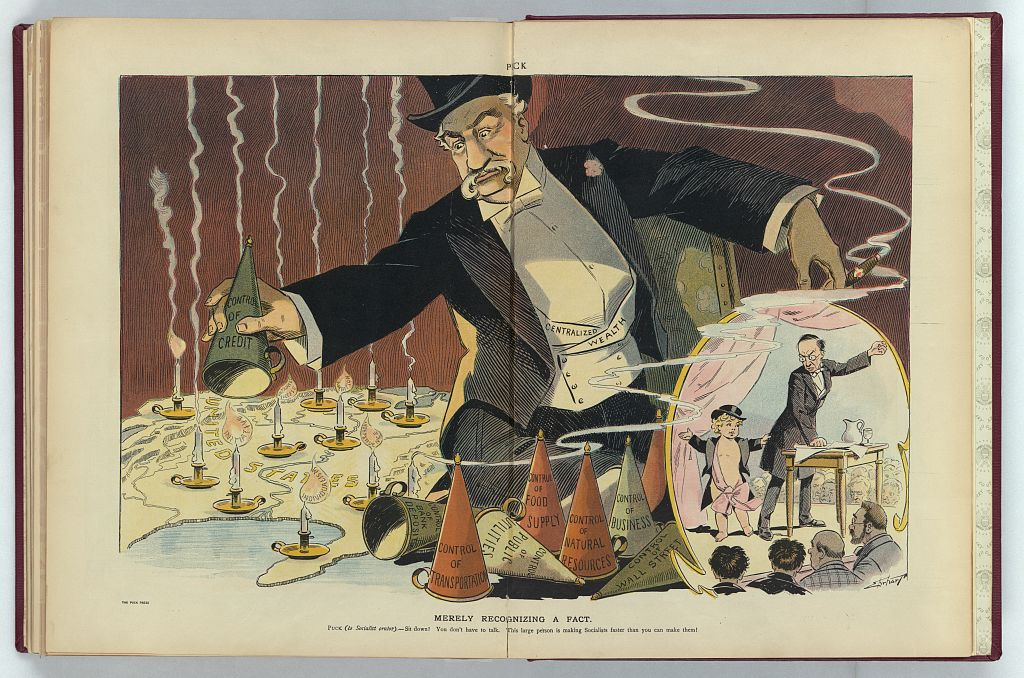 Title: Merely recognizing a fact / Ehrhart. Abstract/medium: 1 photomechanical print : offset, color.